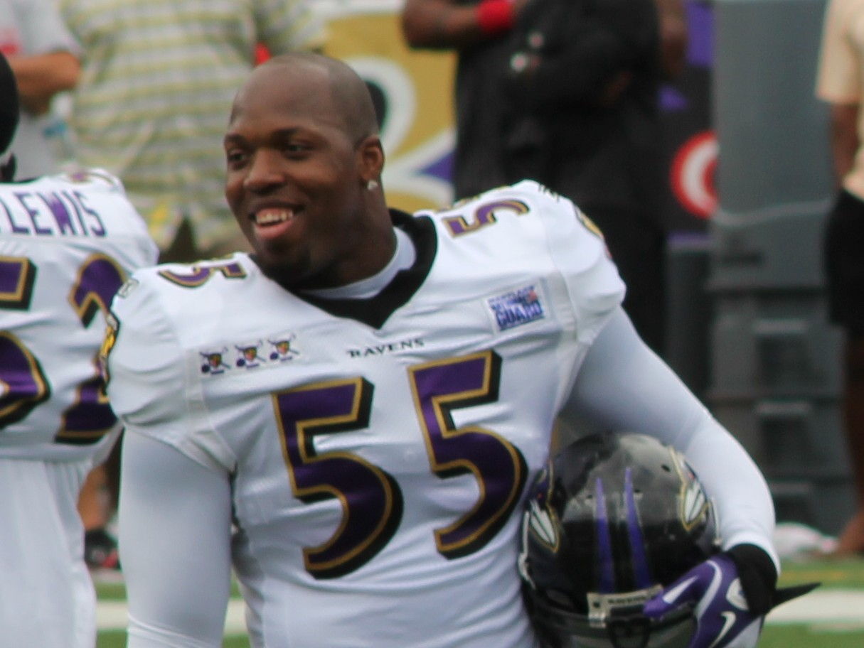 Terrell Suggs Practice at M&T Bank Stadium August 2011